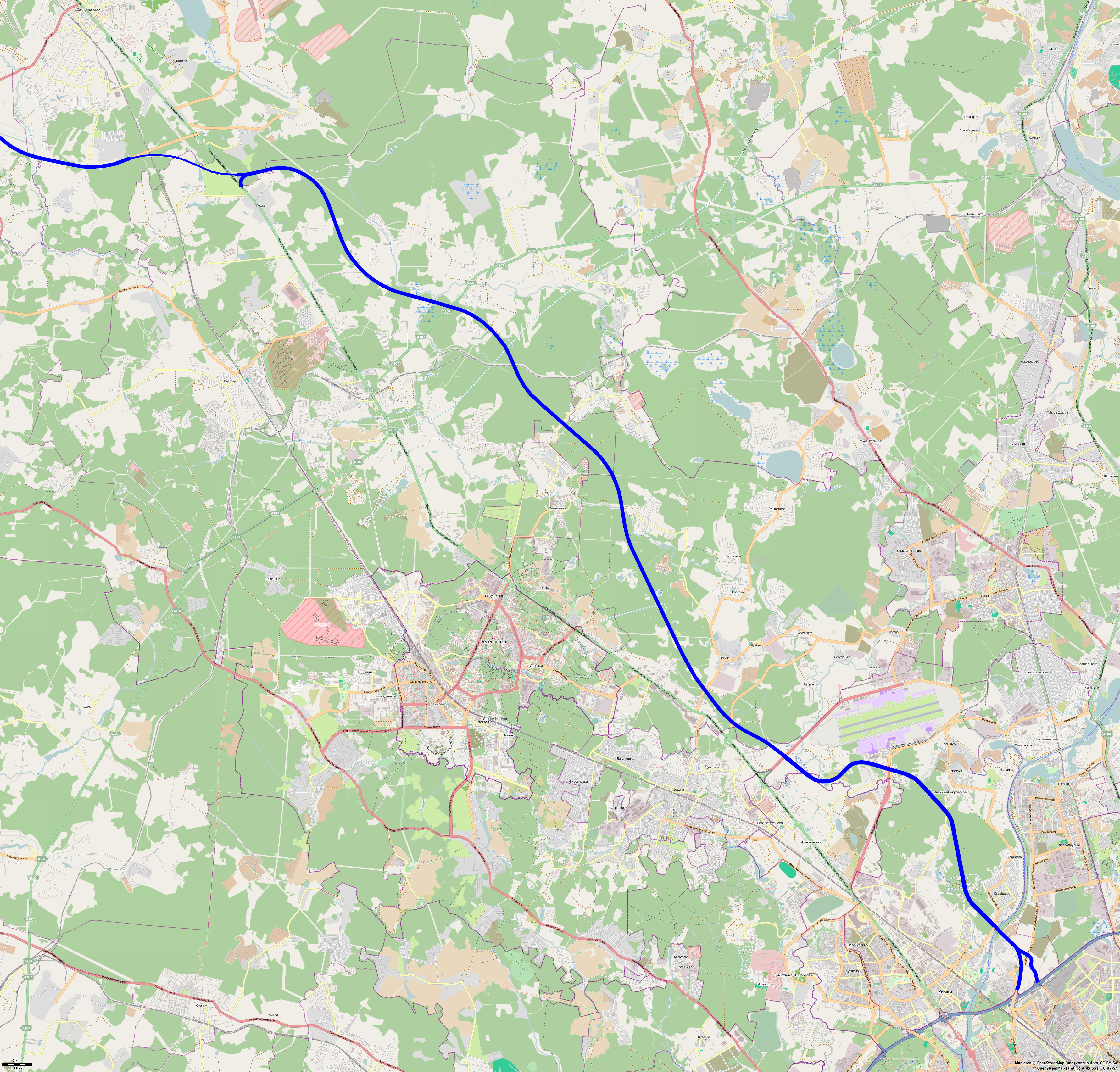 Map of construction Moscow – Saint Petersburg motorway. This map may be incomplete, and may contain errors. Don't rely solely on it for navigation.